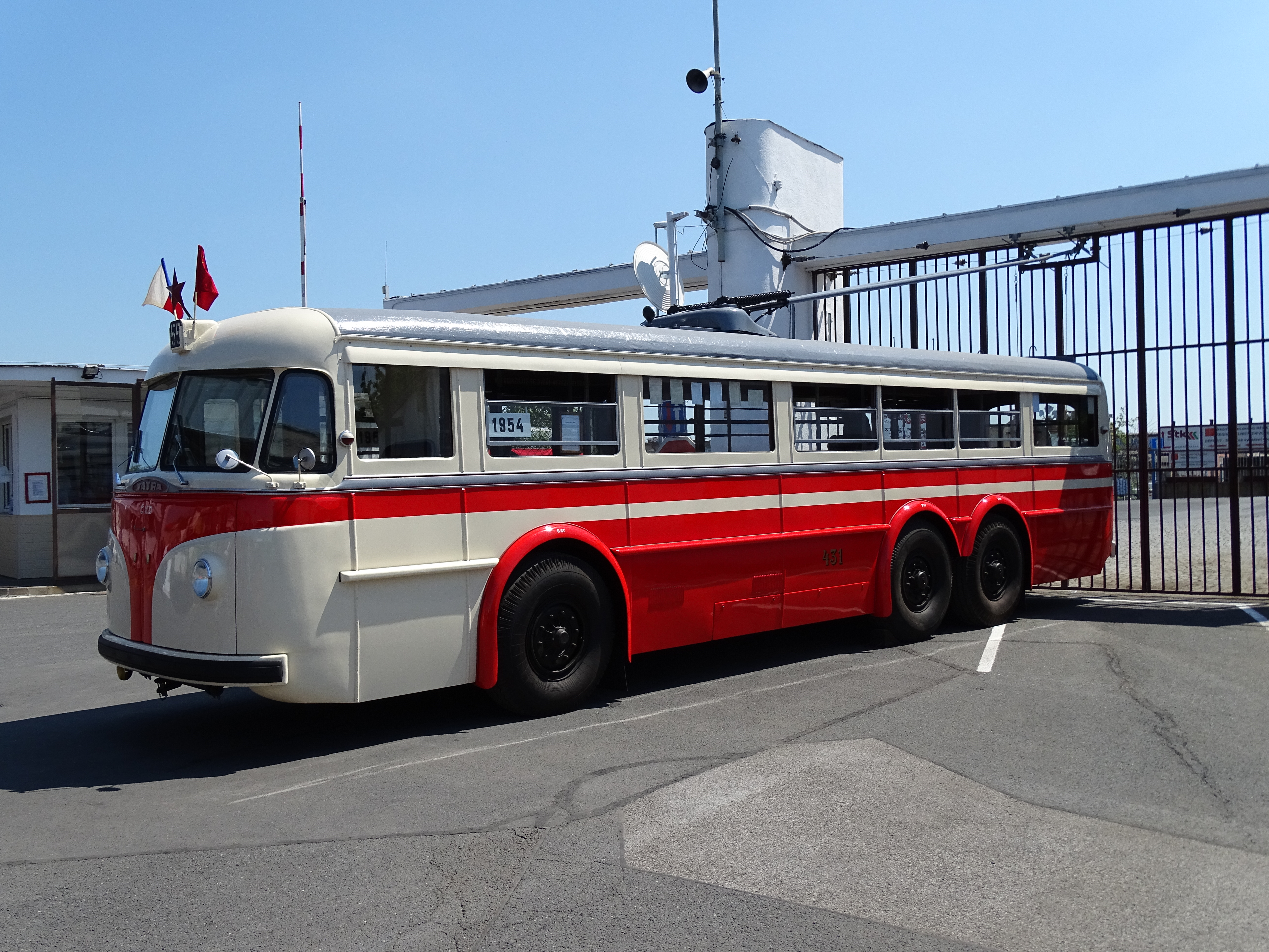 Prague-Michle, Czech Republic. Nad Vršovskou horou 80/1a, open doors day of the bus garage. Trolleybus Tatra T 400.